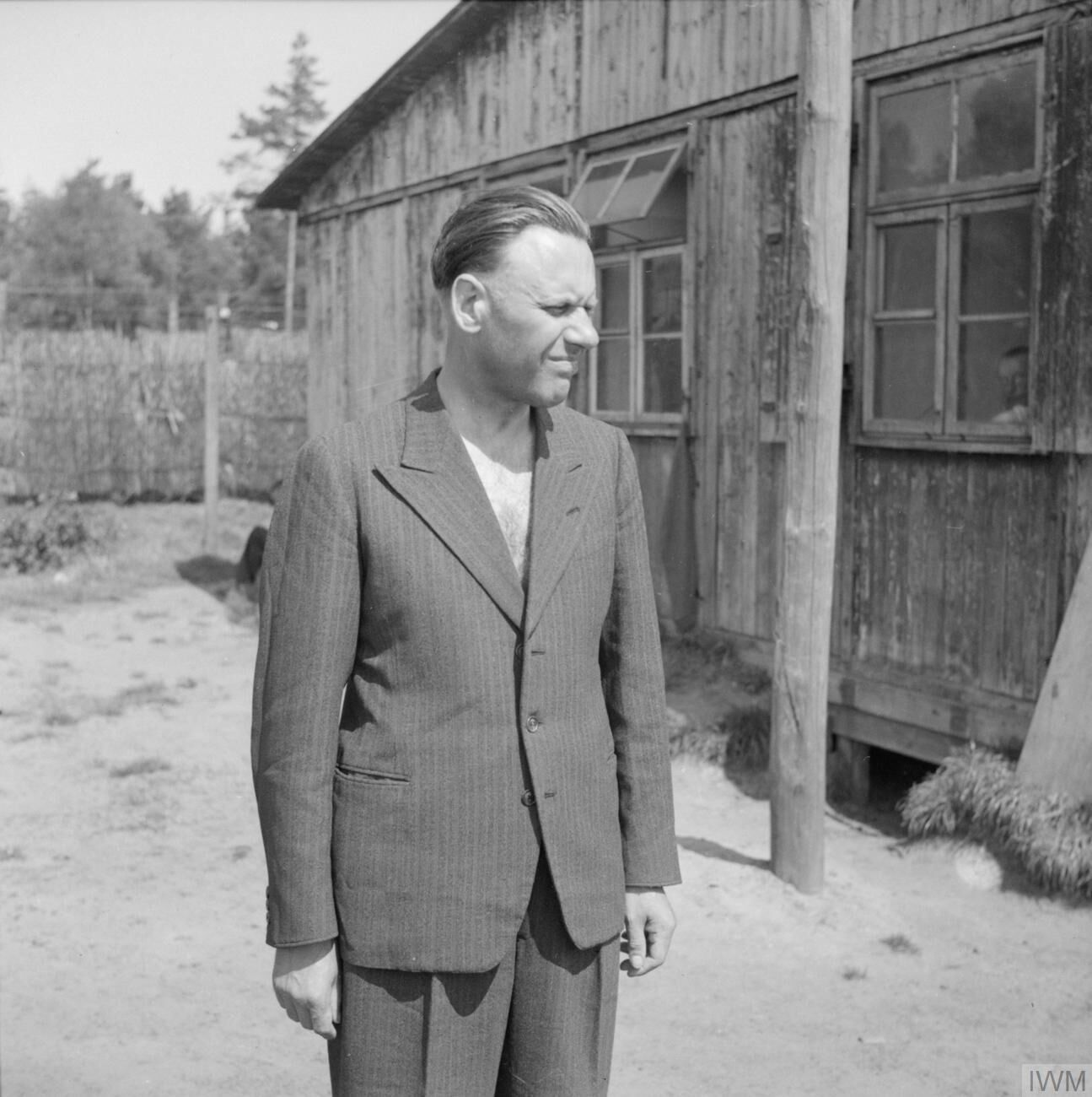 Germany Under Allied Occupation Alex Bernard Hans Piorkowski, former commandant of Dachau Concentration Camp, under British arrest at Westertimke near Bremen.